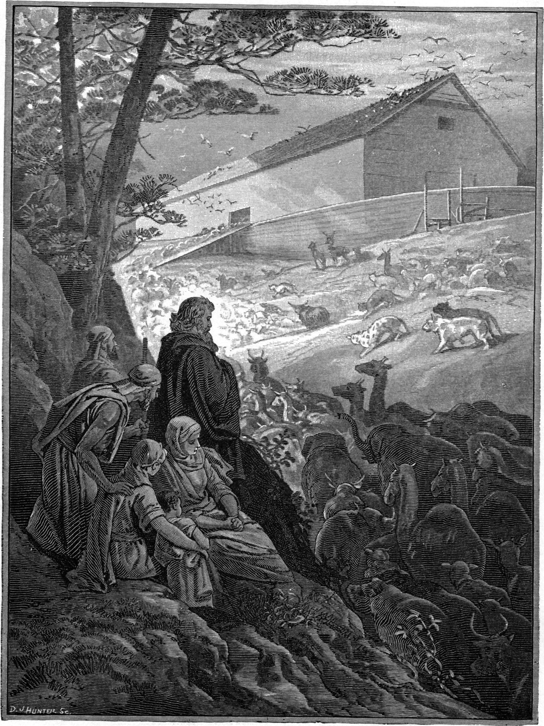 Noah's Ark